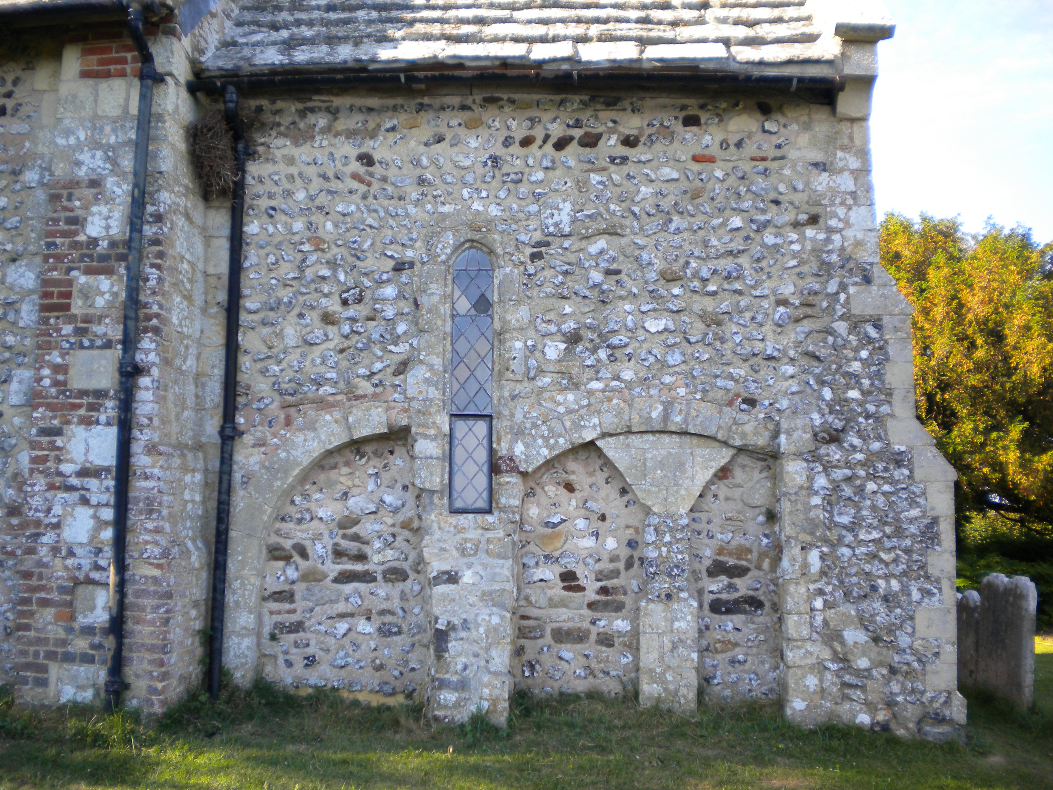 Buncton All Saints Chapel, Wiston, West Sussex, England.